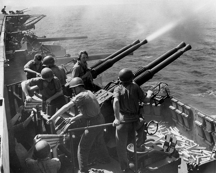 Bofors 40 mm anti-aircraft guns on a Mk 12 quadruple mount firing on board USS Hornet (CV-12), circa February 1945, probably during gunnery practice. The original picture caption identifies the photo as having been taken during Task Force 58's raid on Japan, 16 February 1945. However, helmetless members of the gun crew, and rolled up shirt sleeves, strongly indicate that the occasion was in warmer climes and not while in combat. View looks aft on the port side, with the carrier's port quarter 5"/38 guns just beyond the 40 mm mount. Note ready-service ammunition and spent shell casings at right; men passing 4-round clips to loaders at left.[1][2]